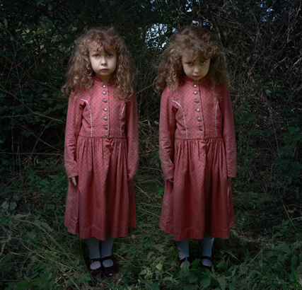 Work of Czech photographer Tereza Vlčková